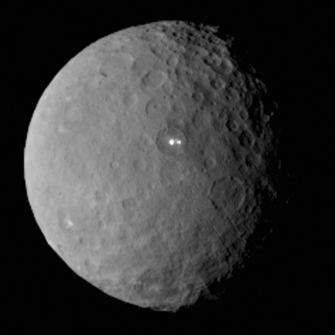 Dwarf planet Ceres photographed by NASA's Dawn spacecraft from a distance of nearly 46000 km. Cropped and bicubic interpolated version of PIA19185.